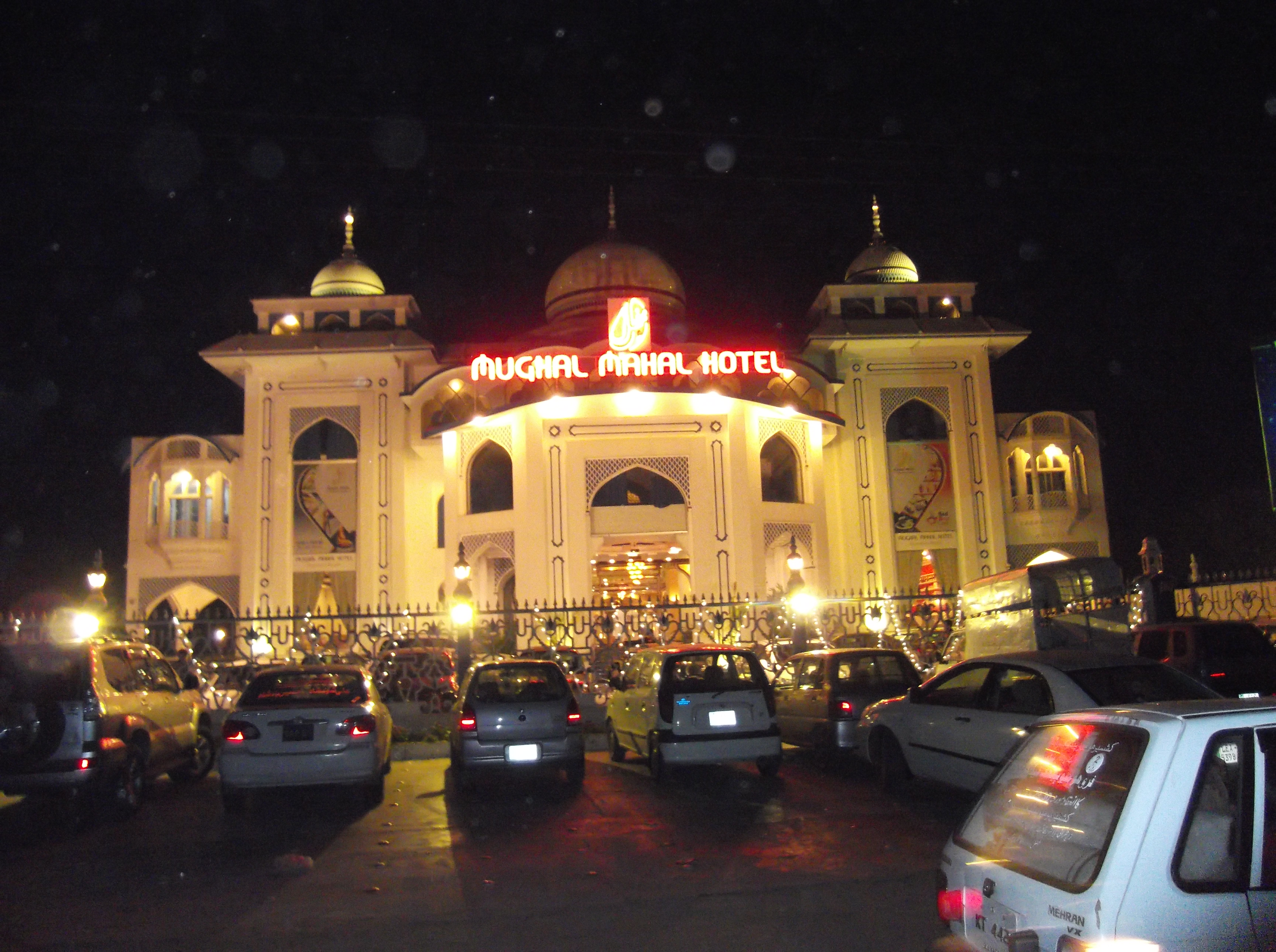 It is located in gujranwala District